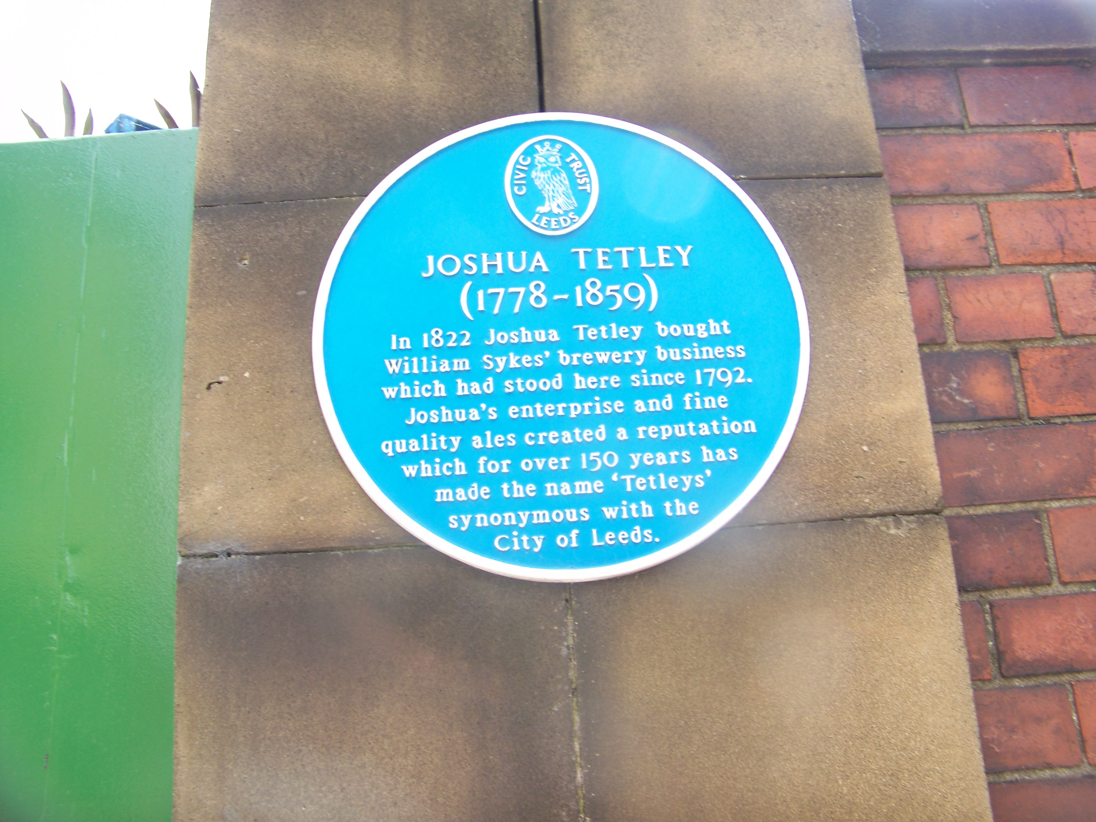 A plaque near the main entrance to the Tetley's Brewery (at the Junction of Hunslet Road and Waterloo Street) in Leeds, West Yorkshire. The plaque is named after the brewery founder Joshua Tetley. Taken on the afternoon of Thursday the 24th of June 2010.